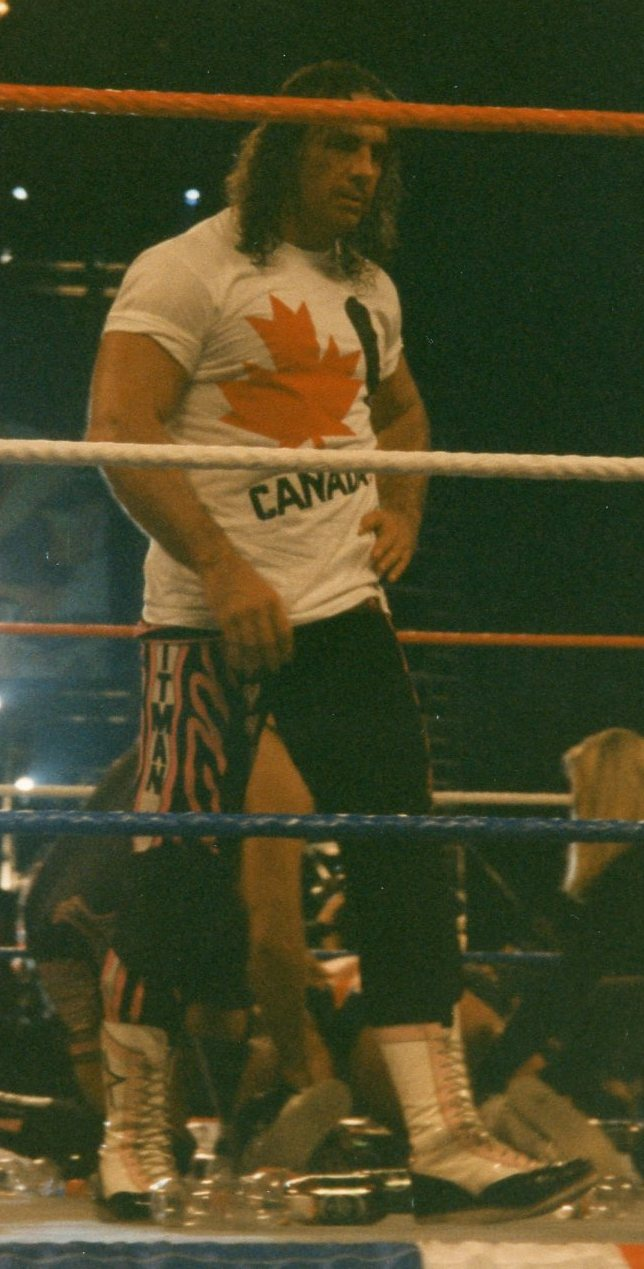 Professional wrestler Bret Hart